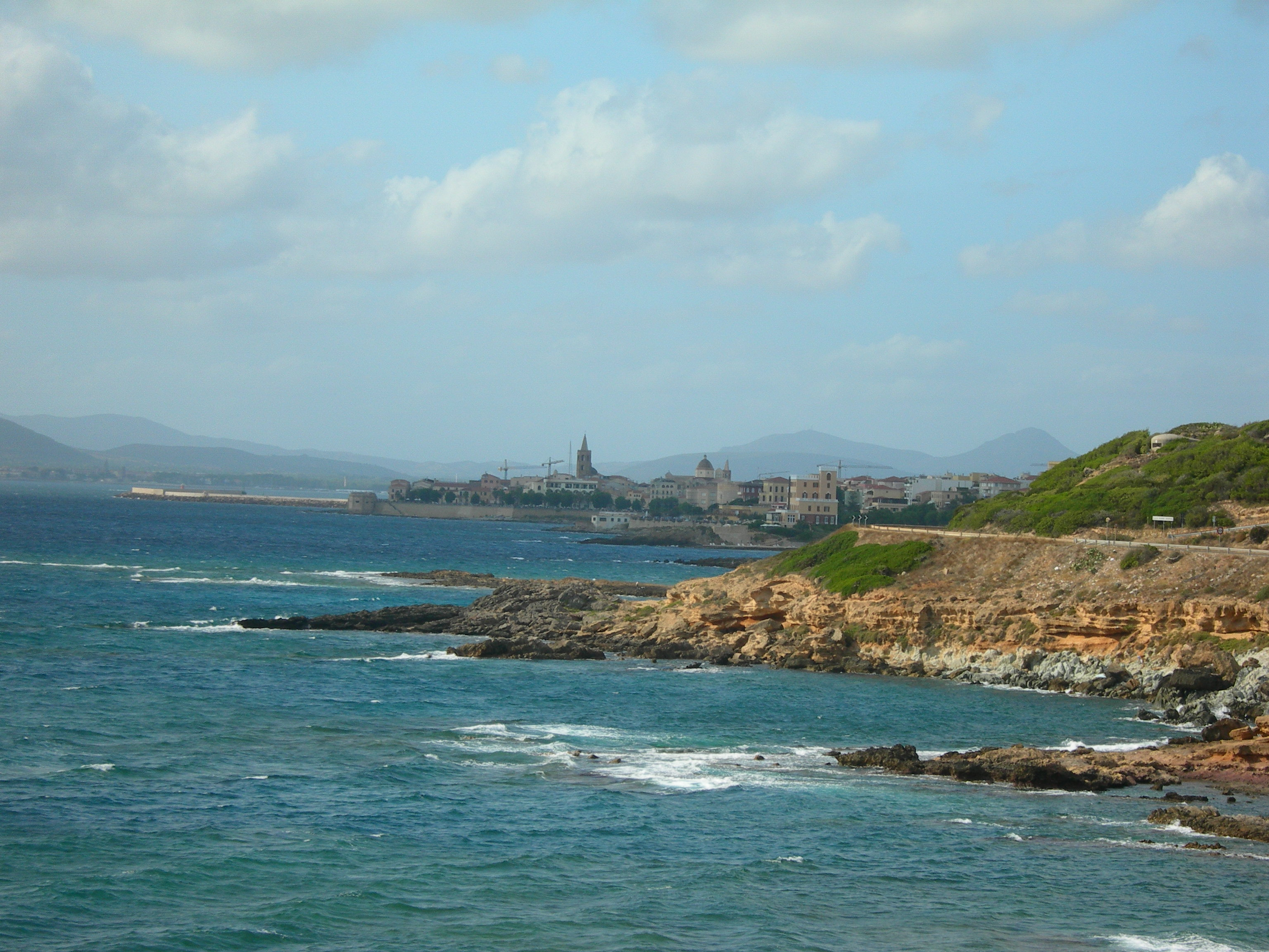 Alghero old city.